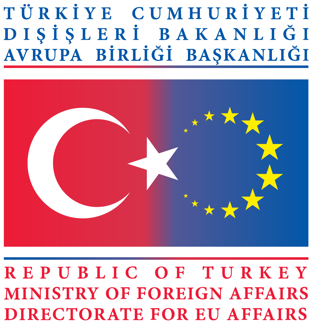 EU Accession Logo for Turkey